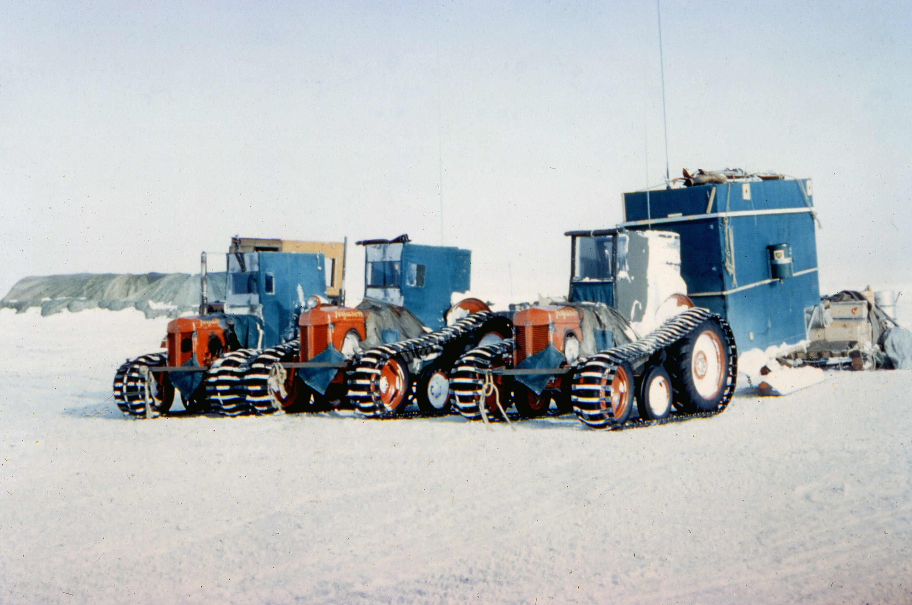 Tractors (Ferguson TE20) used by New Zealander Edmund Hillary in his transcontinental expedition across Antarctica in 1957.